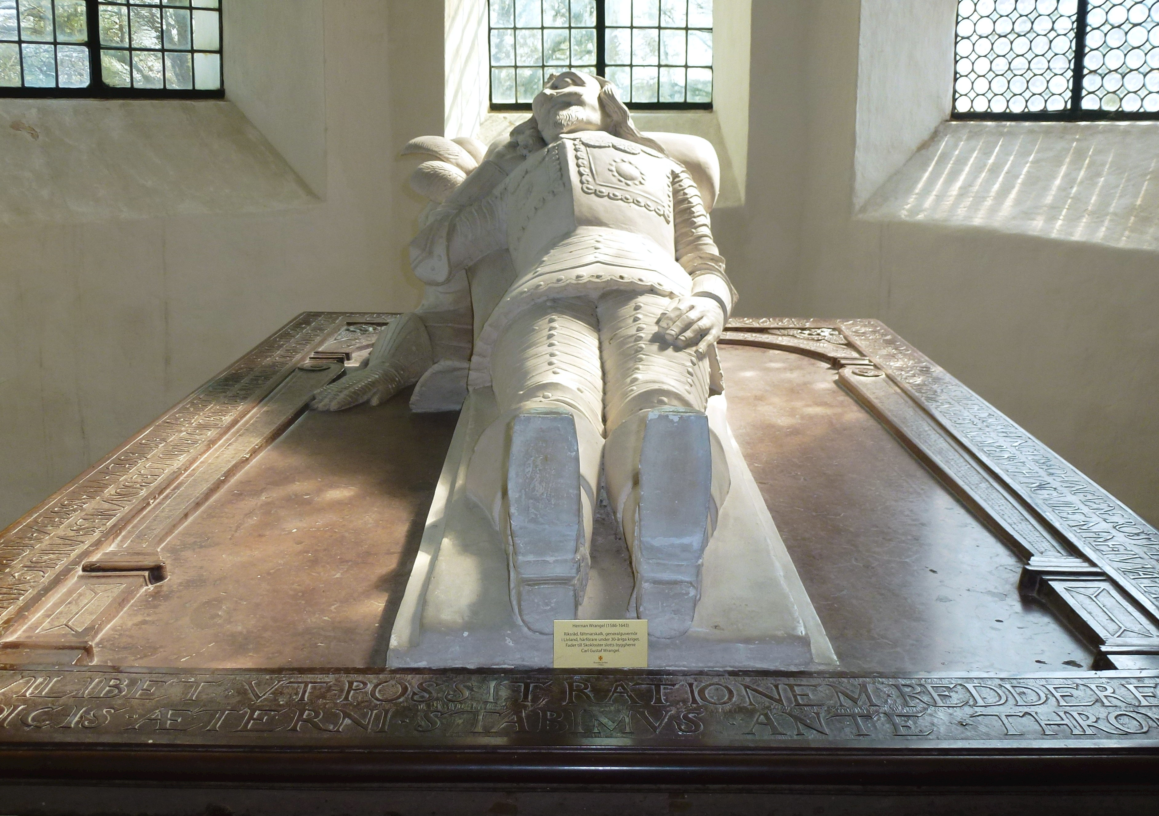 The tomb of Herman Wrangel (c. 1584-1643), Swedish field marshall ang governor of Livonia, in Skoklosters kyrka. The effigy designed by Daniel Anckermann c. 1650.